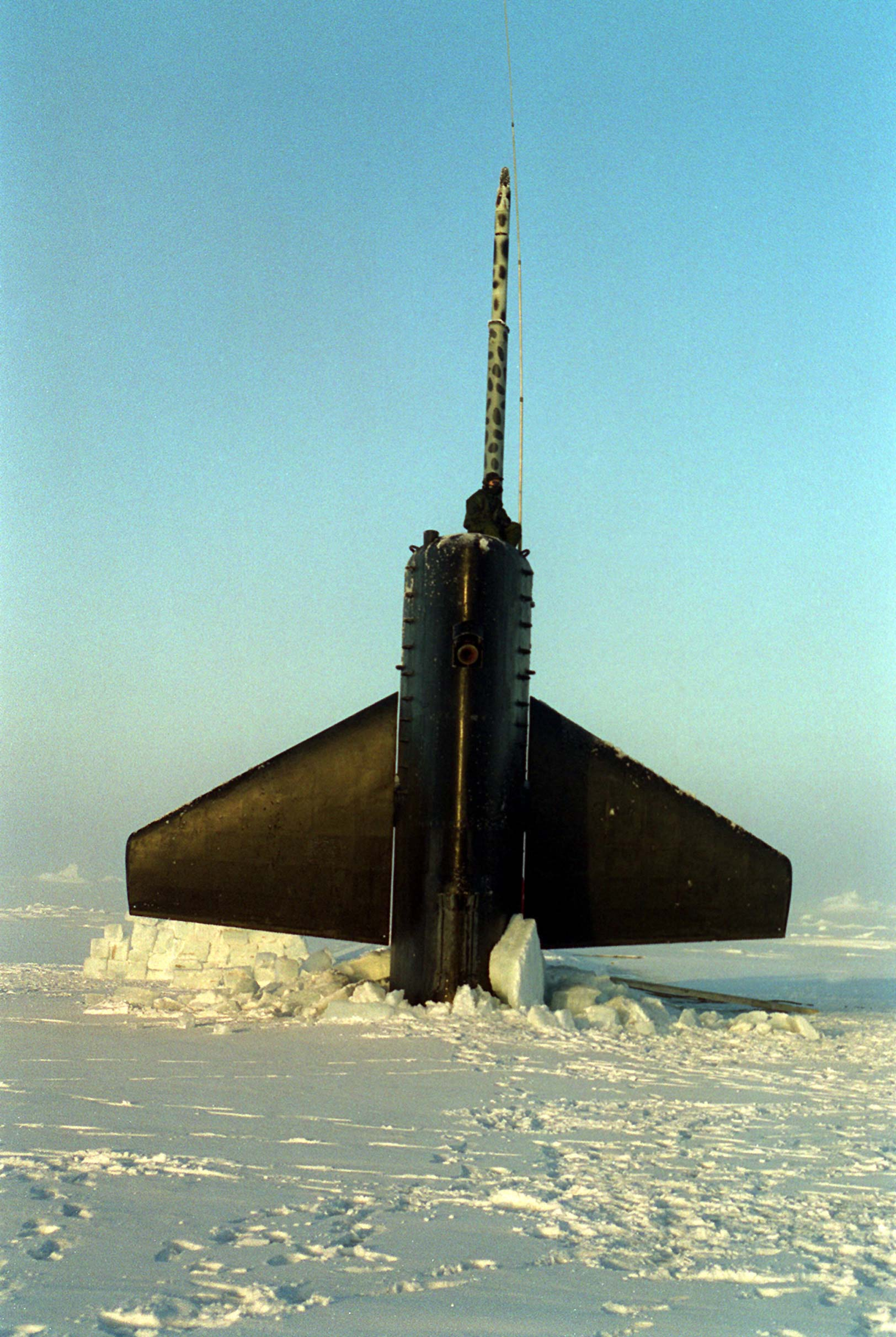 Petty Officer 2nd Class Mark Sisson stands the lookout watch while perched high on the sail of the attack submarine USS Pogy (SSN 647). The submarine is on a 45-day research mission to the North Pole. Seven scientists and technical advisors are conducting experiments and collecting samples for studies in water mass properties, geophysics, ice mechanics and pollution detection in the Arctic Ocean. While personnel are out on the ice, a lookout is continuously posted to scan the horizon for polar bear activity. The research voyage is the second of five planned deployments through the year 2000.